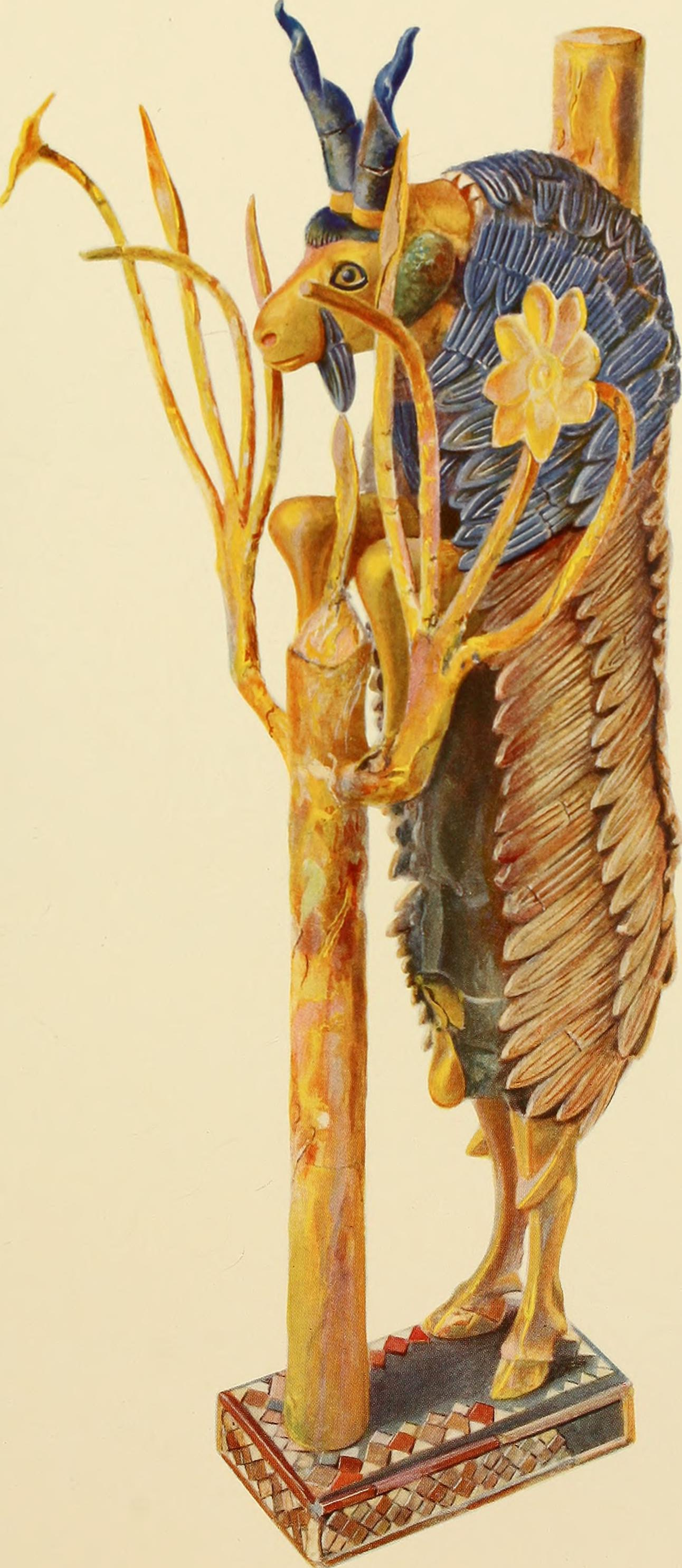 Title: Ur excavations Year: 1900 (1900s) Authors: Joint Expedition of the British Museum and of the Museum of the University of Pennsylvania to Mesopotamia Hall, H. R. (Harry Reginald), 1873-1930, ed Woolley, Leonard, Sir, 1880-1960 Legrain, Leon, 1878- ed Subjects: Publisher: (n.p.) Pub. for the Trustees of the Two Museums by the aid of a grant from the Carnegie Corporation of New York Text Appearing Before Image: 1 a. PG/1847. DETAIL OF THE COFFIN (s), SHOWING THE STRING BINDINGV. p. 137 b. PG/1851. BITUMEN BOAT, SHOWING THE SKELETON OF WITHIES ON WHICH THE BITUMEN WAS PLASTERED V. p. 145 PLATE 87 Text Appearing After Image: U. 12357 A. THE RAM CAUGHT IN A THICKET One of the two goat statuettes from the Great Death-pit. Scale c. \ (ht. 0-50 m.) v. pp. I2i, 264 M. Louise Baker pinx, PLATE